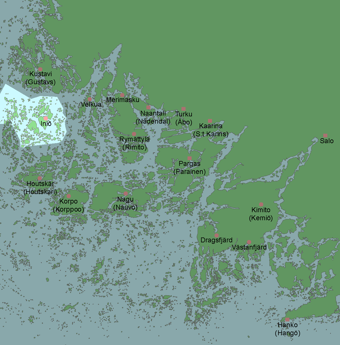 Location of the municipality of Iniö within the Finnish Archipelago Sea